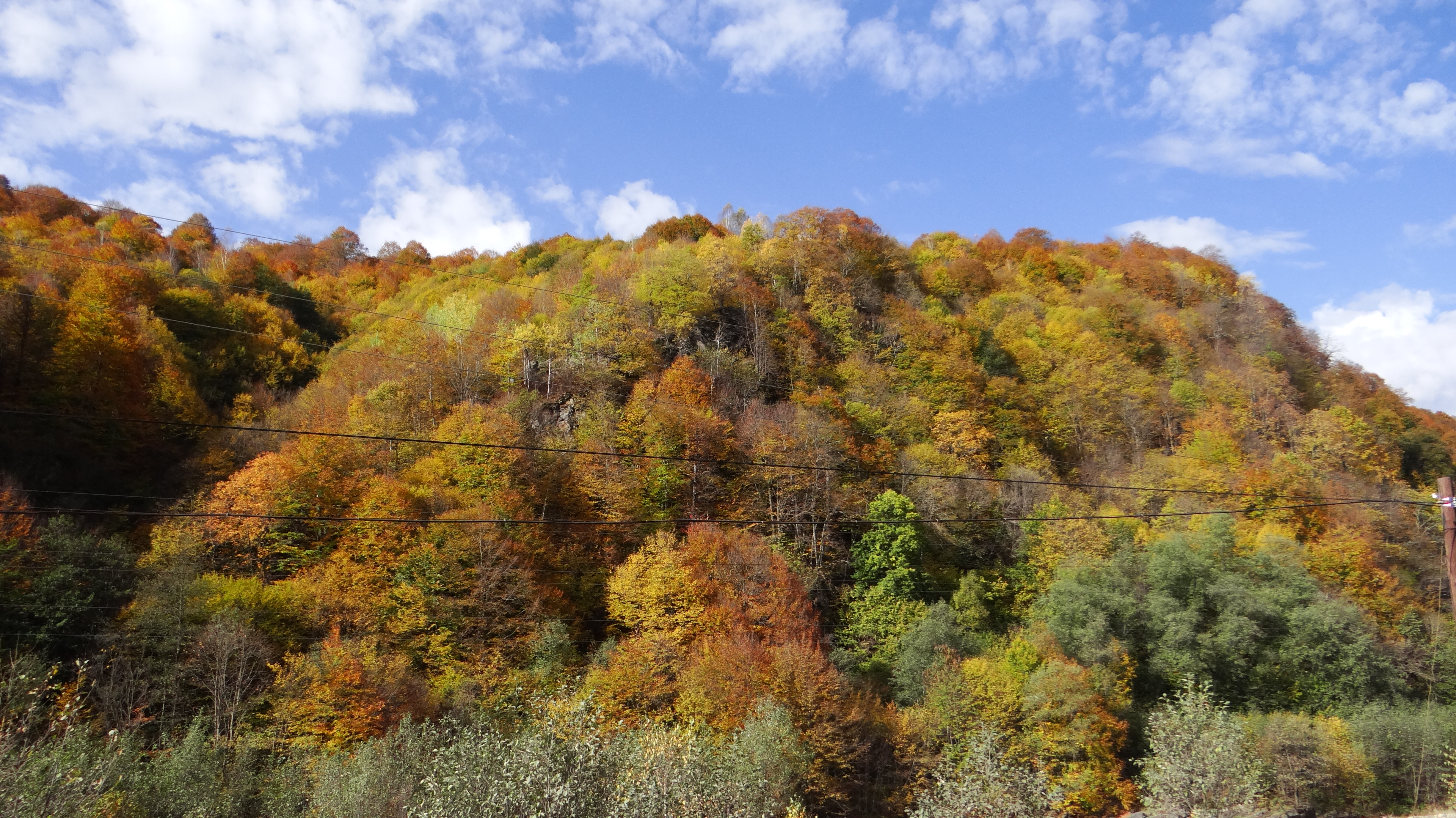 Urupsky District, Karachay-Cherkessia, Russia